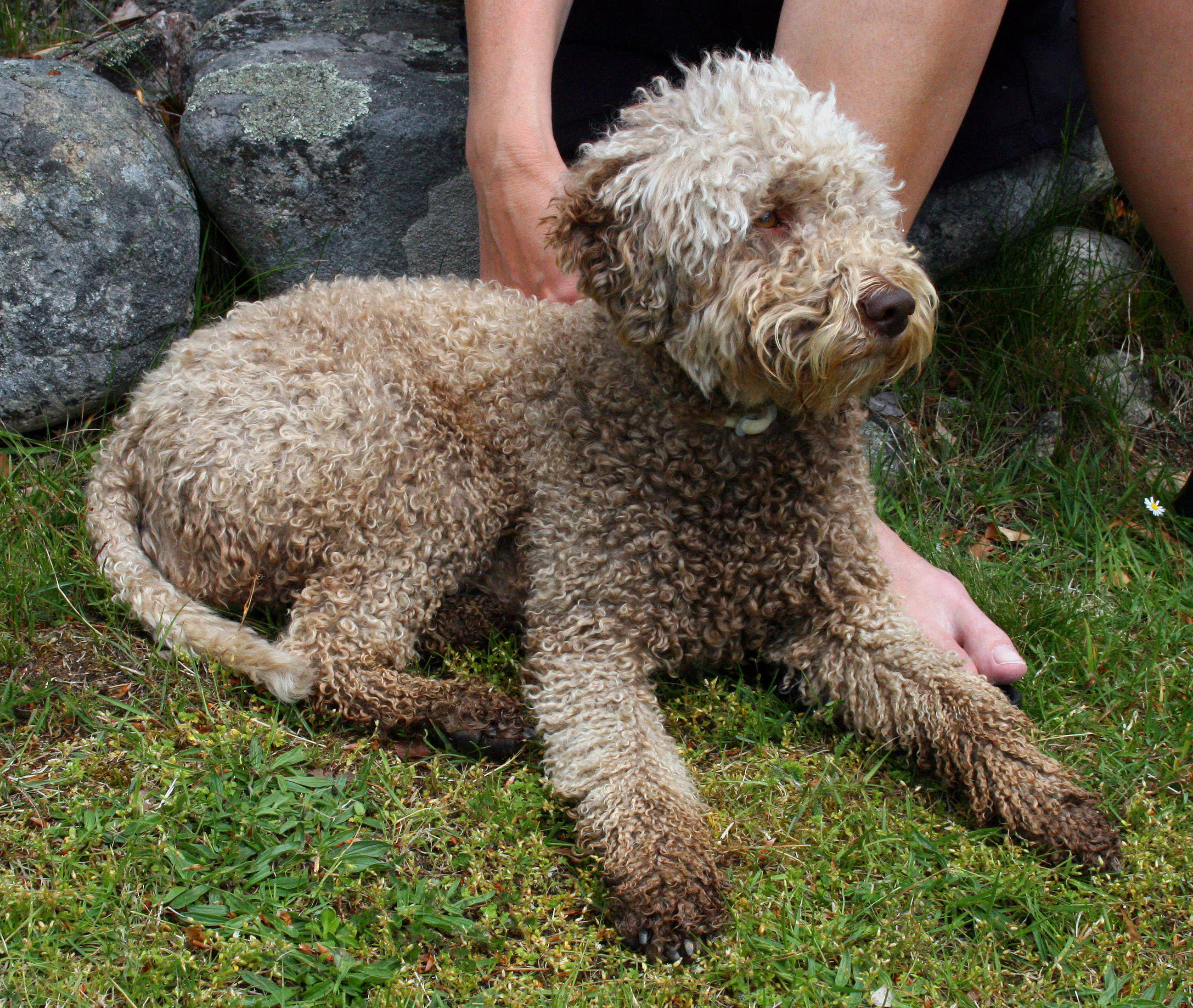 Female Lagotto Romagnolo, 2½ years old